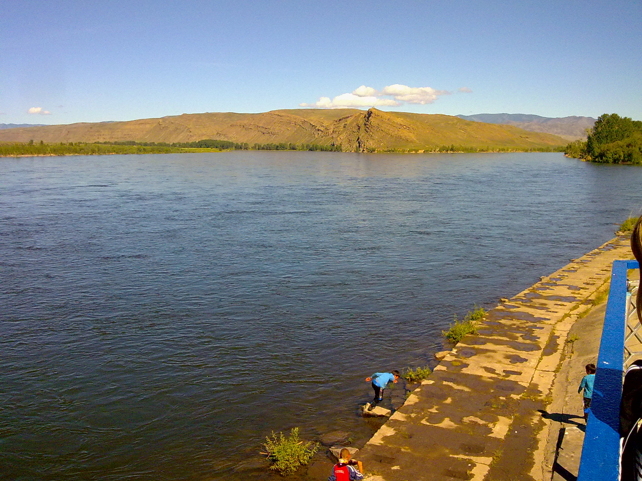 Merging the Greater and Lesser Yenisei at Kyzyl